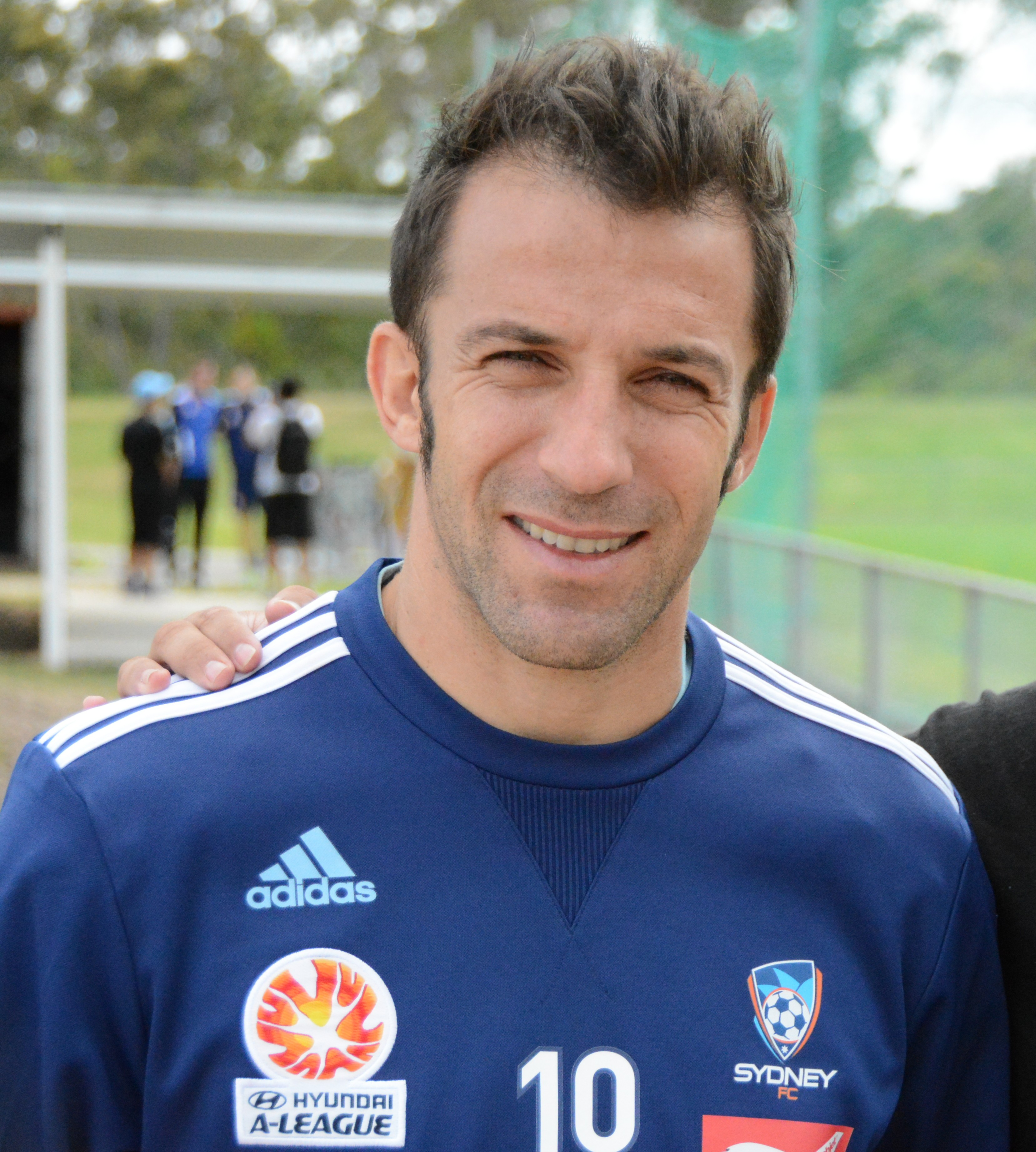 Alex and Alessandro